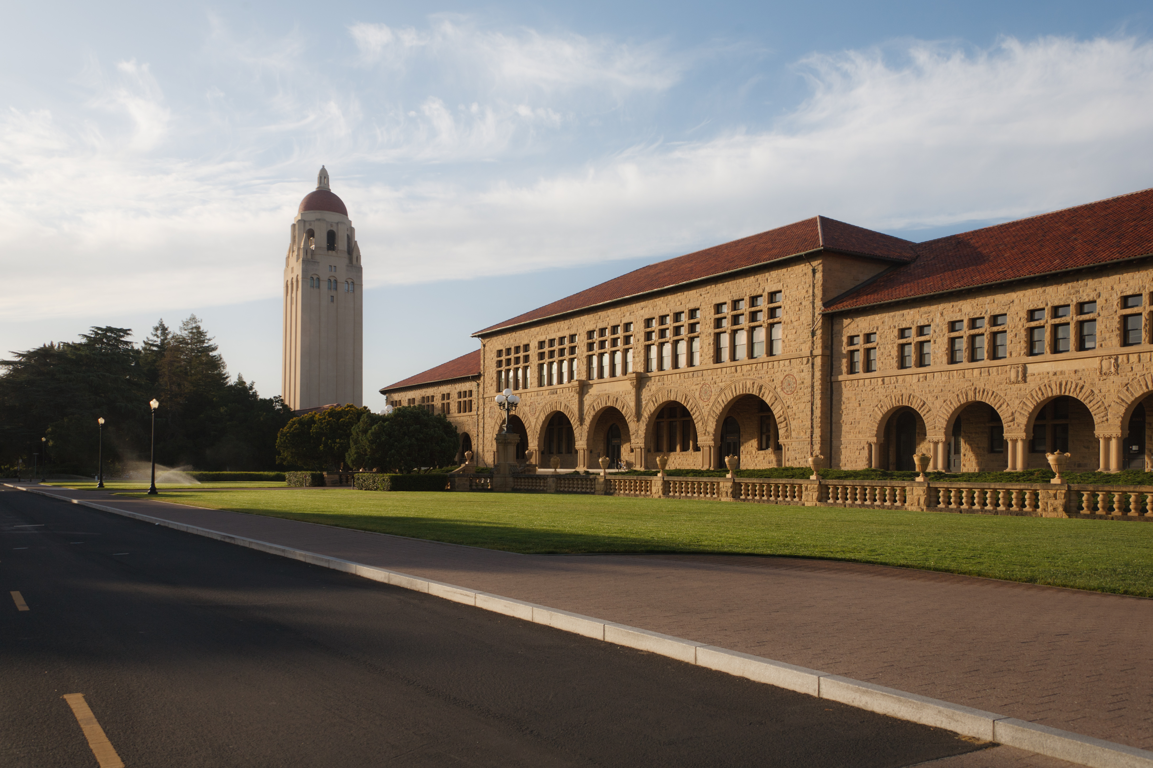 Hoover Tower and McClatchy Hall, Stanford University, Stanford, California.